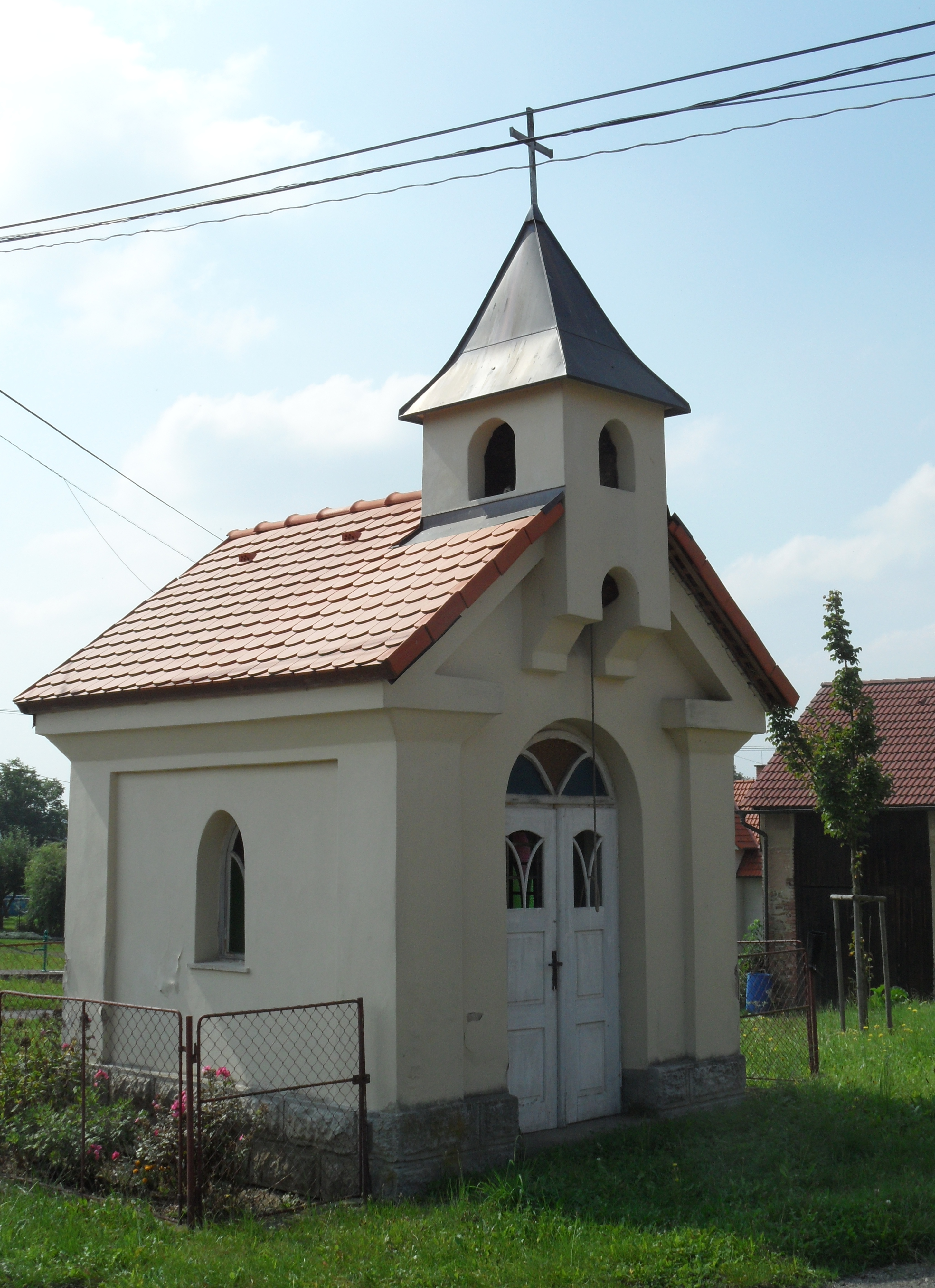 Dolní Pohleď B. Chapel, Kutná Hora District, the Czech Republic.